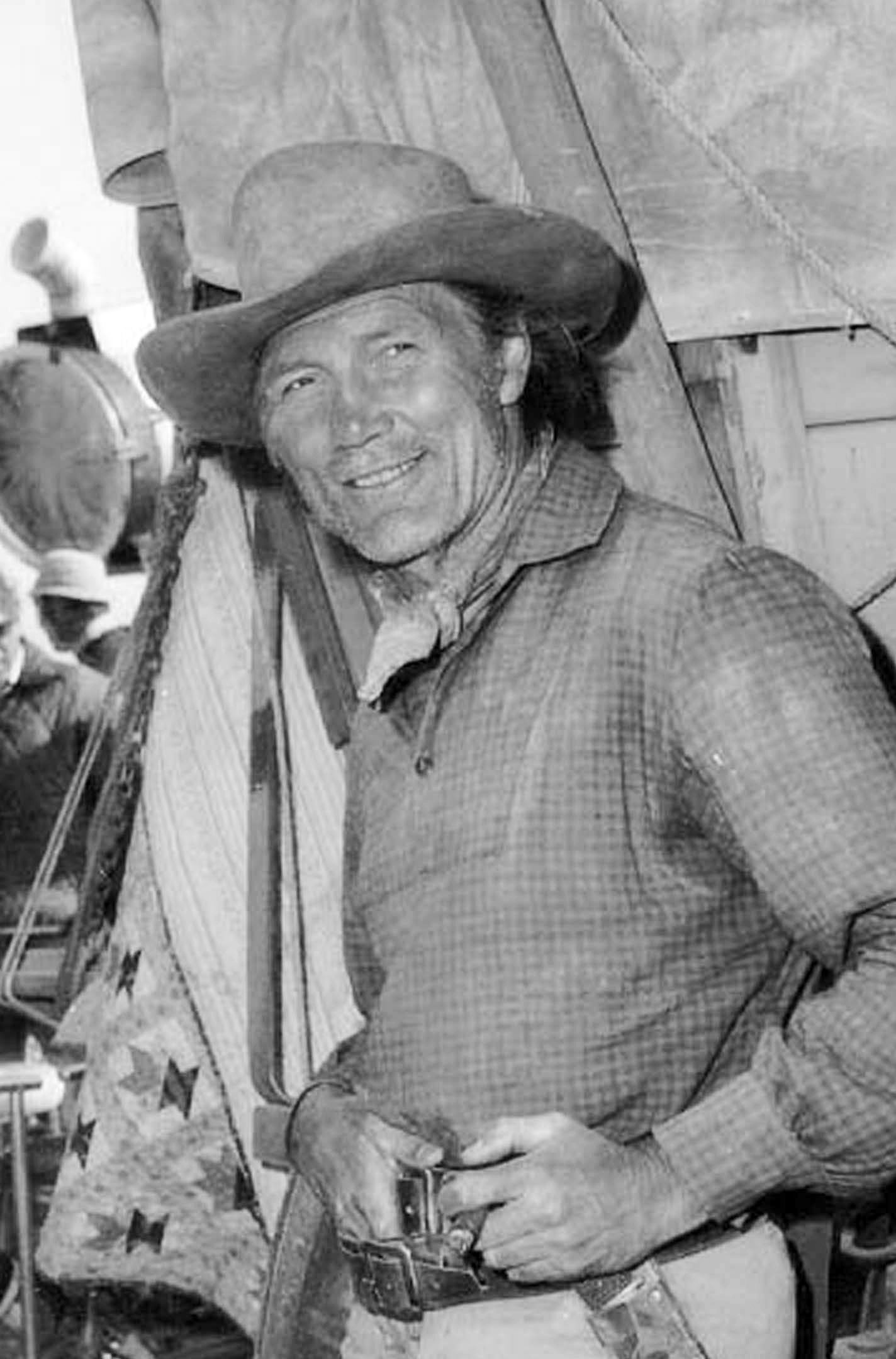 Jack Palance and director John Badham during filming of "The Godchild." It was filmed in 1974 at Edwards AFB. Source: Edwards Air Force Base